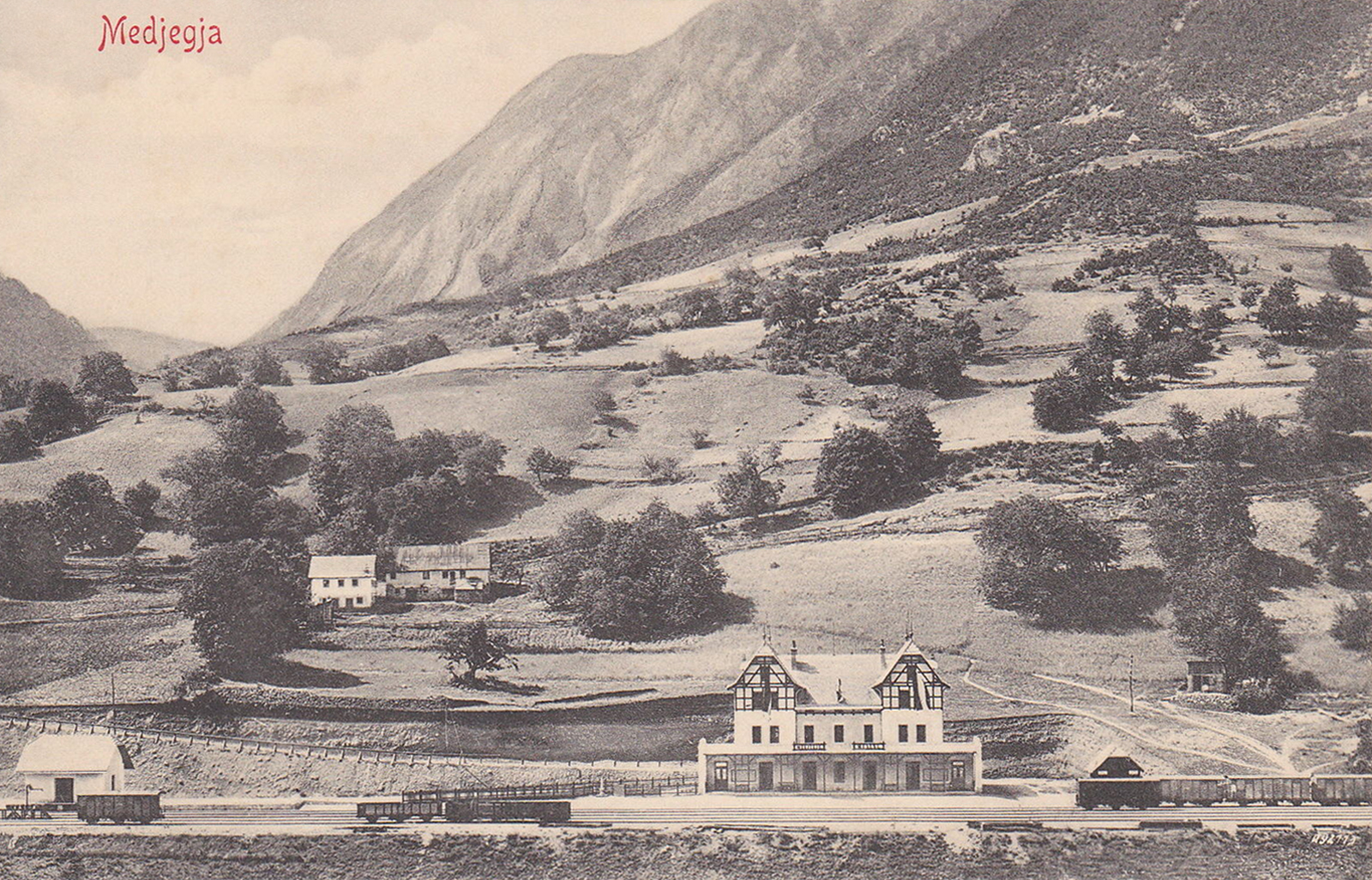 Narrow-gauge railway station Međeđa on the line Sarajevo (- Vardište) - Uvac